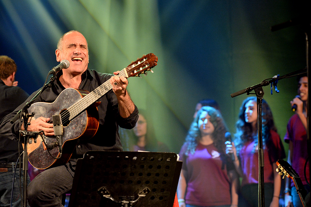 Jewish, Arab singers perform together "to promote harmony" US Embassy organizes the concert, which honors slain American Jewish journalist Daniel Pearl Israeli singers David Broza and Mira Awad performed Thursday at a concert organized by the US Embassy in Israel “to promote harmony for humanity through music.” Photo Credit: Matty Stern/U.S. Embassy Tel Aviv